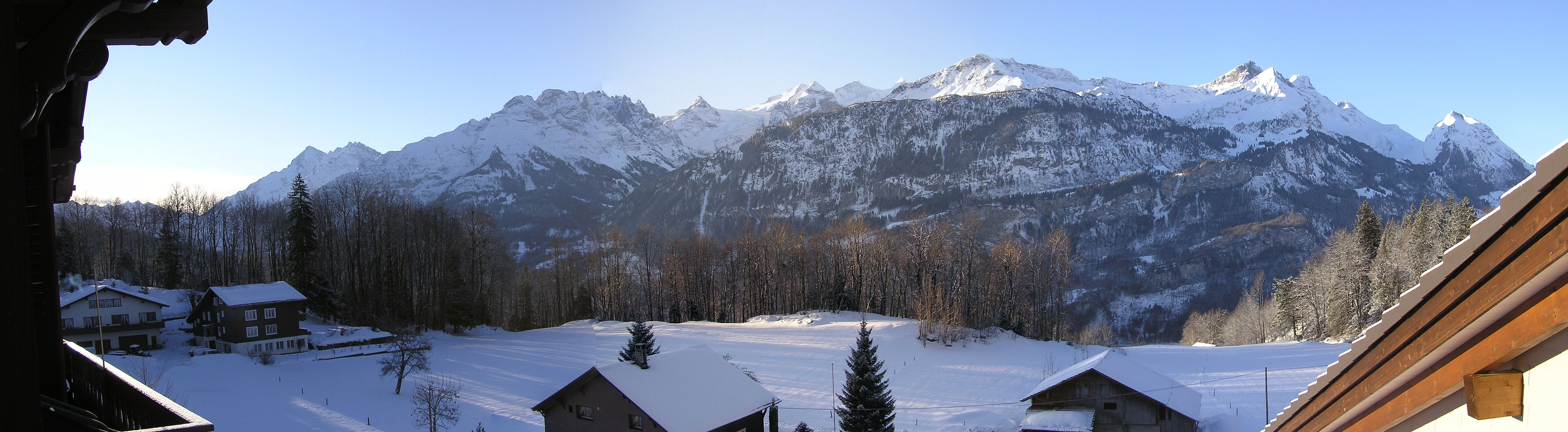 panorama of Hasliberg-Hohfluh toward south